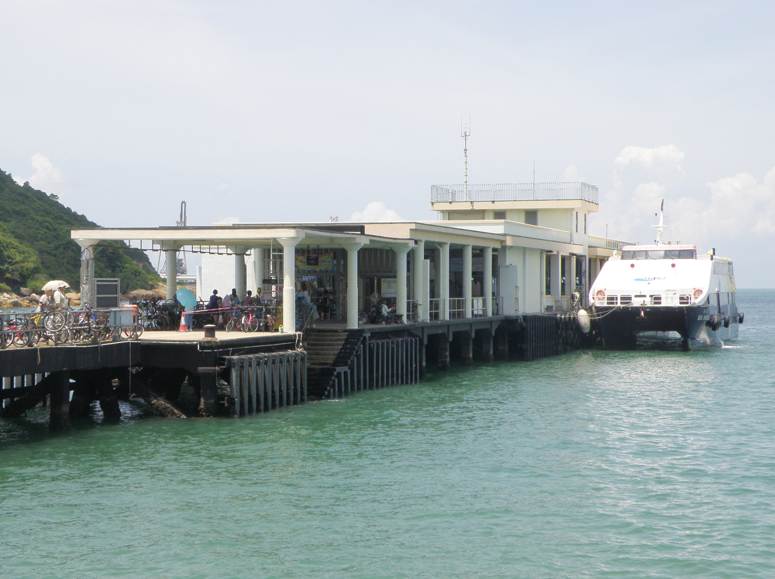 Yung Shue Wan Ferry Pier in Lamma Island, Hong Kong.